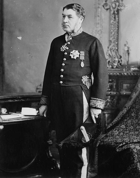 Sir Charles Tupper while Canadian High Commissioner to the United Kingdom.